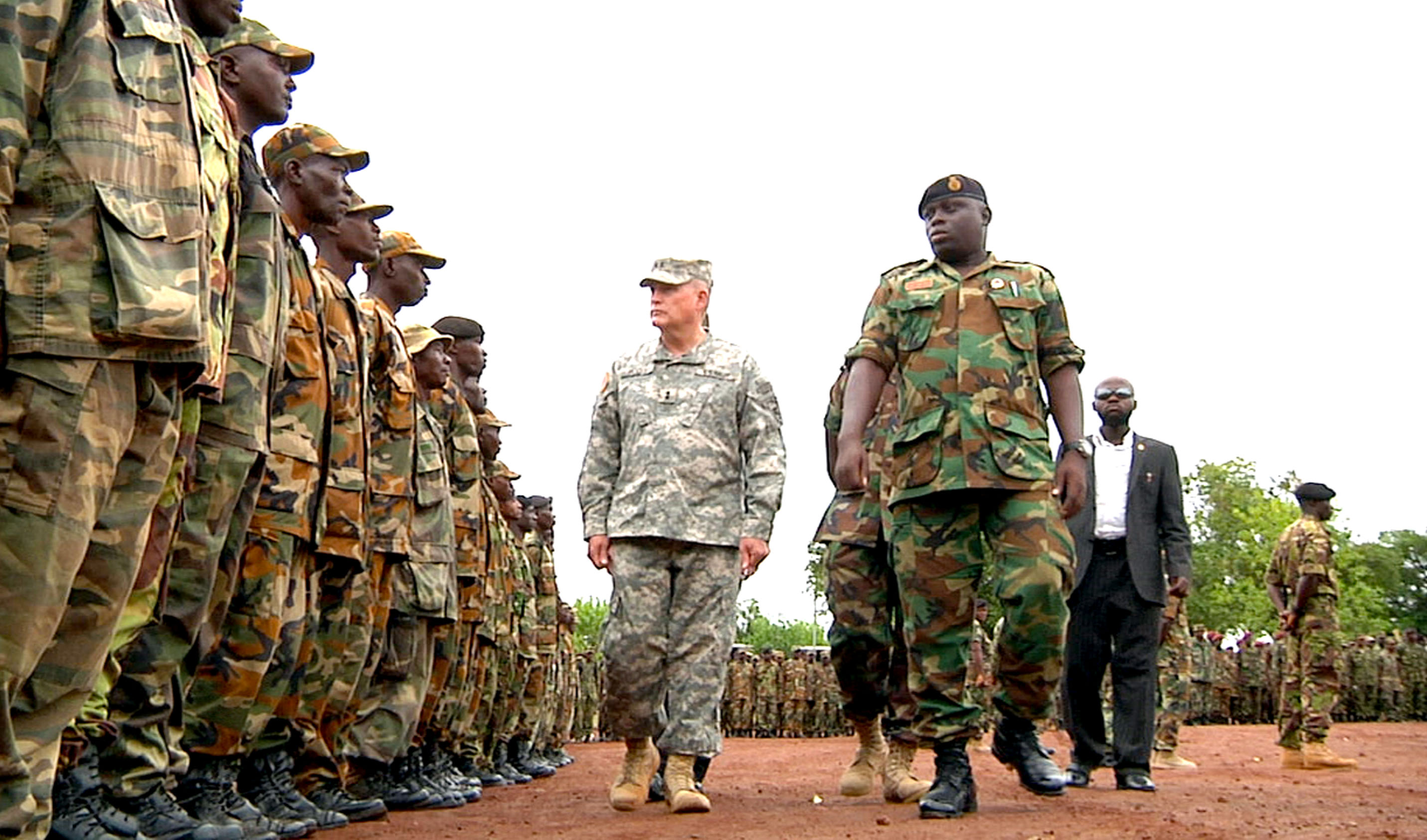 Maj. Gen. David R. Hogg (center), commander U.S. Army Africa and Lt. Col. A.B. Conteh, AMISOM Battalion Commander, RSLAF, inspect Sierra Leone troops during a deployment ceremony May 20. Nearly 1,000 Republic of Sierra Leone Armed Forces personnel completed training for an upcoming African Union Mission in Somalia (AMISOM) deployment. (U.S. Army Africa photo) To learn more about U.S. Army Africa visit our official website at Official Twitter Feed: Official Vimeo video channel: Join the U.S. Army Africa conversation on Facebook